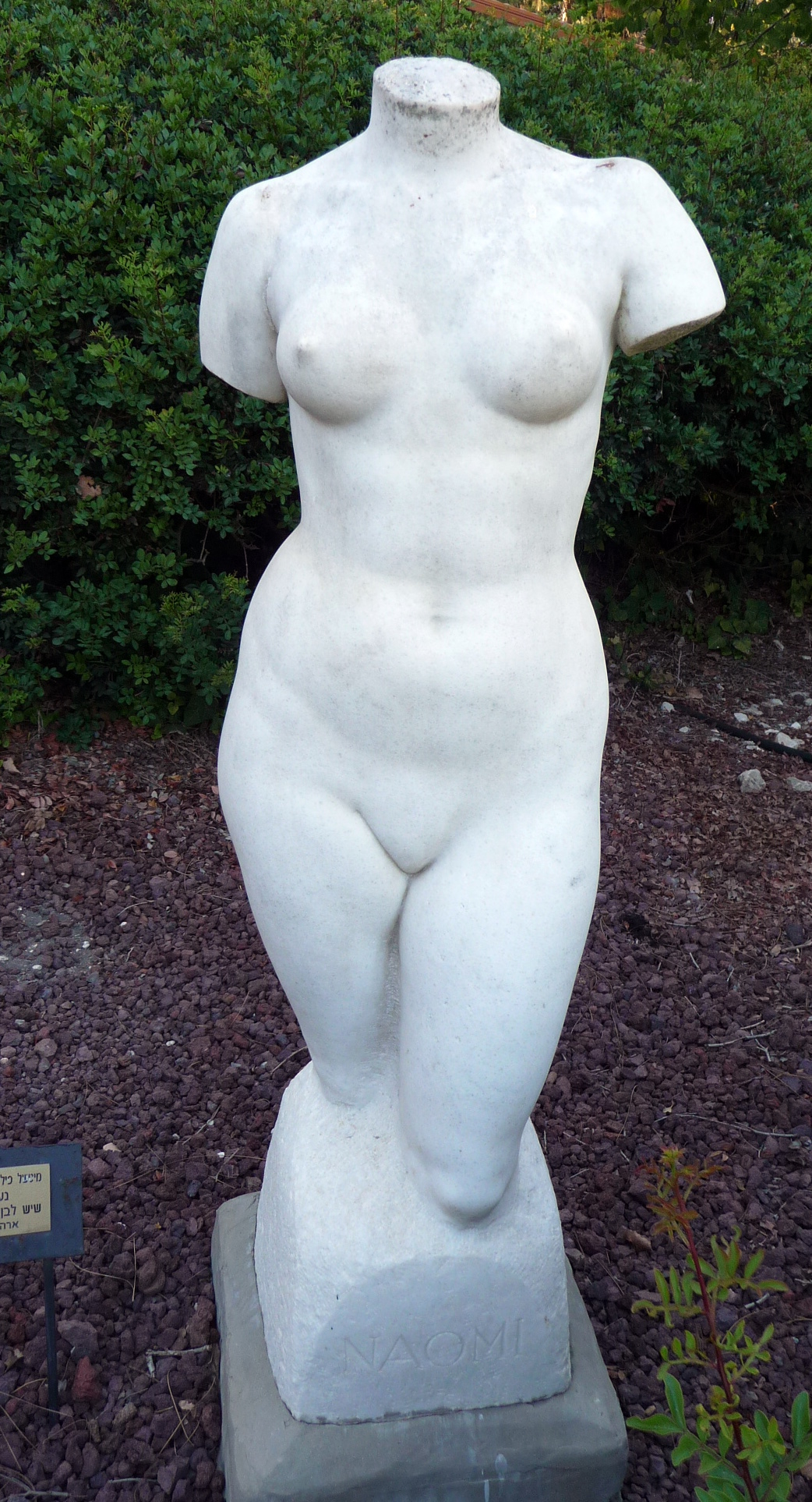 marble statue entitled Naomi. Location Wilfrid Israel Museum